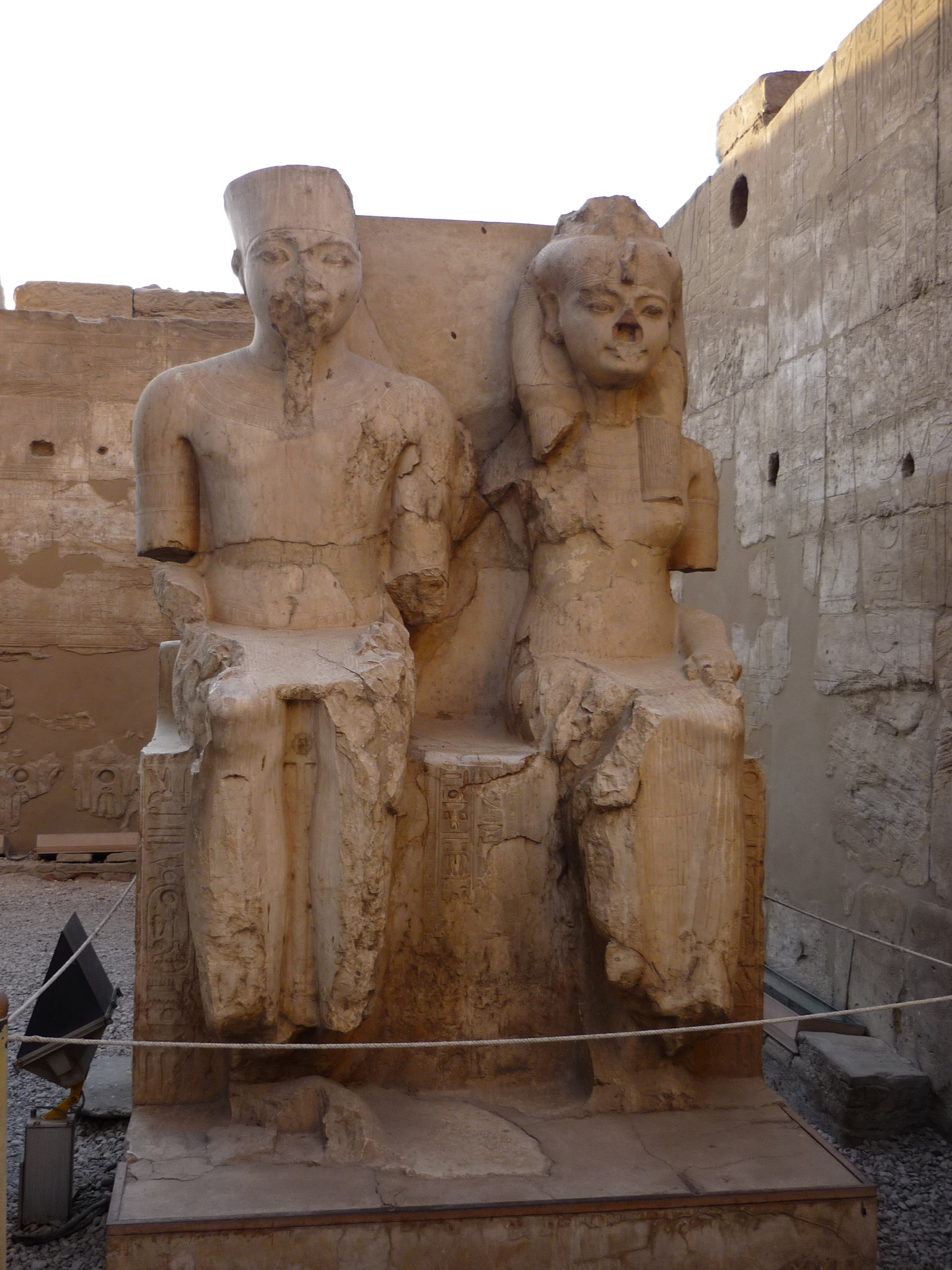 Statues in Amenhotep III colonnade, Luxor Temple, Egypt